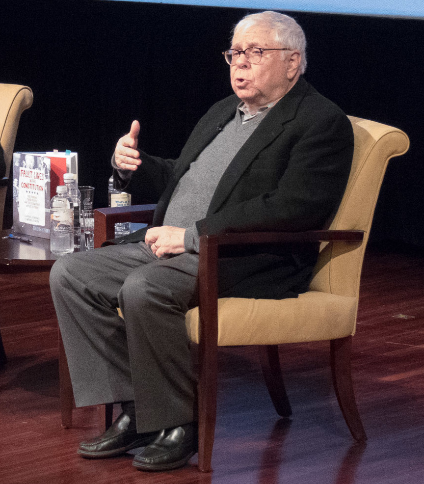 Authors Cynthia and Sanford Levinson discuss the question “Does the government established by the Constitution meet the goals it set out to accomplish?” during a family program at the National Archives in Washington, DC, on December 9, 2017.